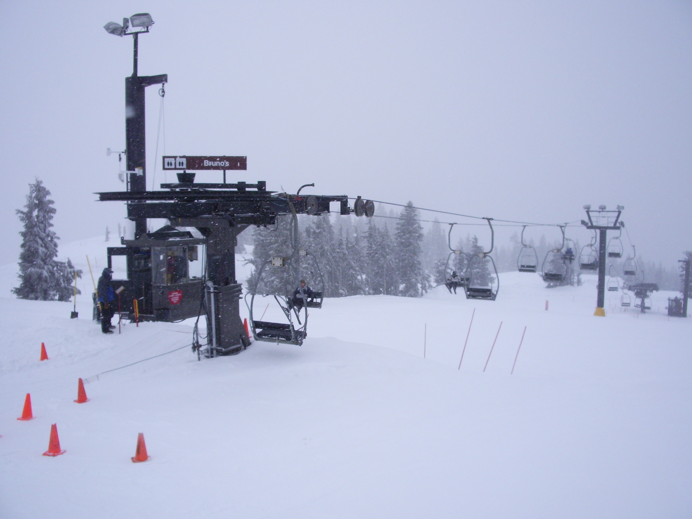 Bunny slope at Timberline Lodge with chairlift. The top and the bottom are both visible as well as the wide, gentle slope.